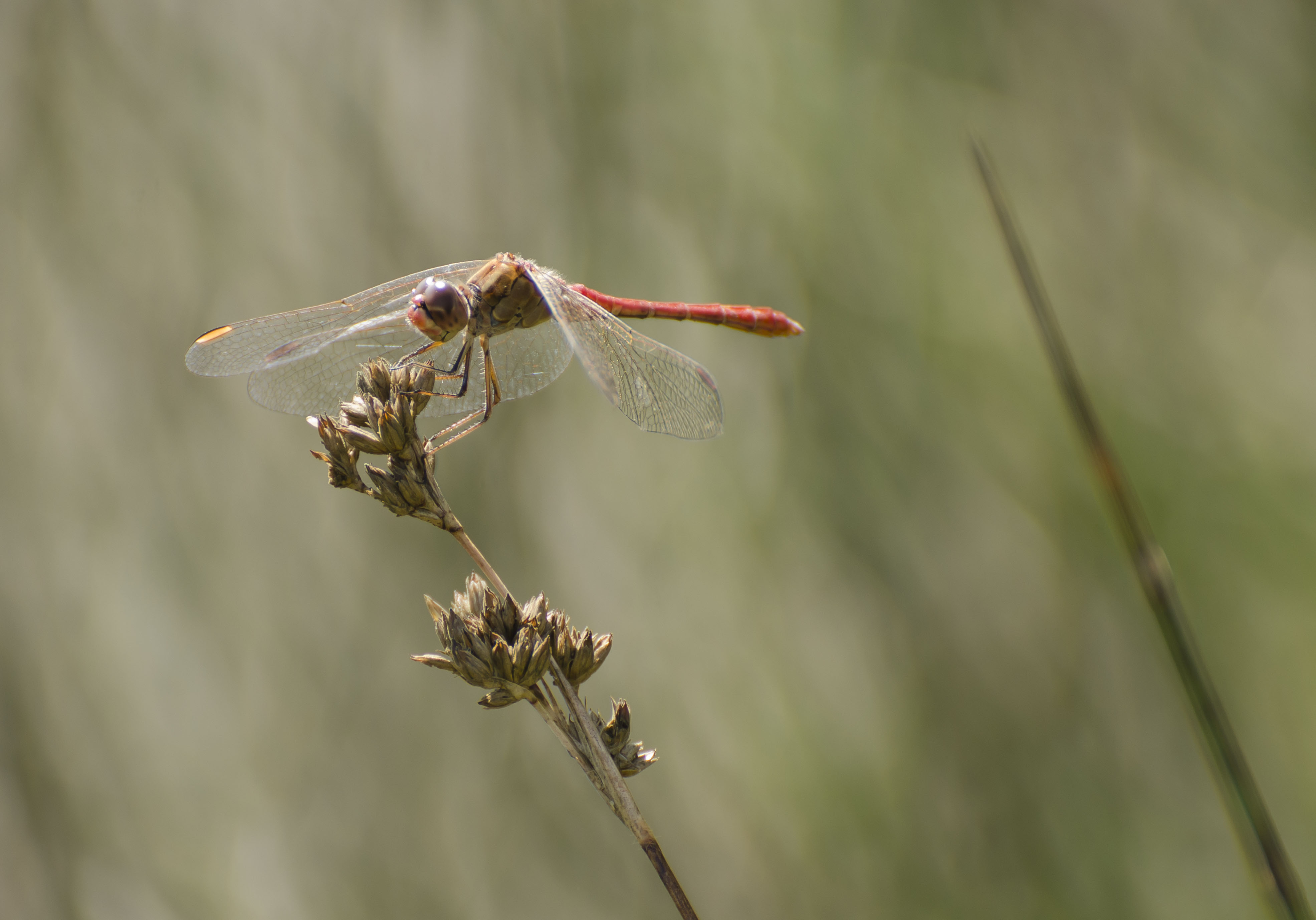 Sympetrum cf. meridionale, male, Sicily. Thanks to the members of Wikipedia:RBIO/B for the identification.